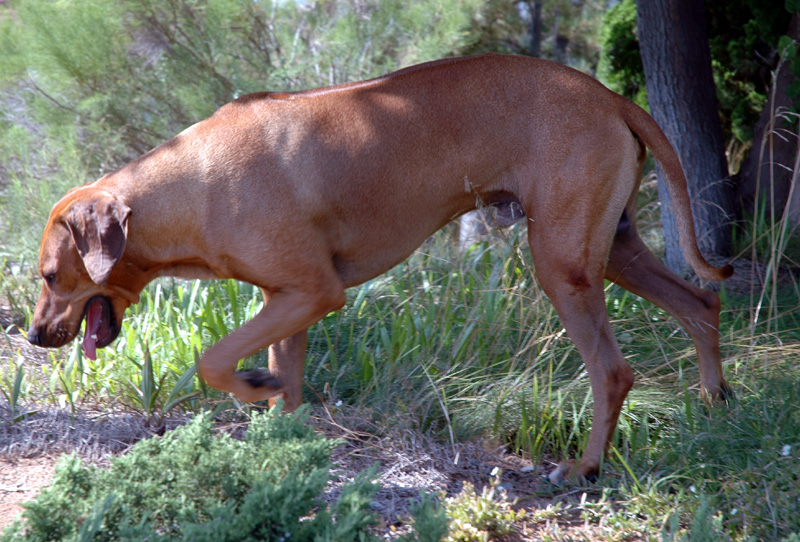 Rhodesian Ridgeback on trail in Southern California. Photograph by Henryk Kotowski in September 2006.